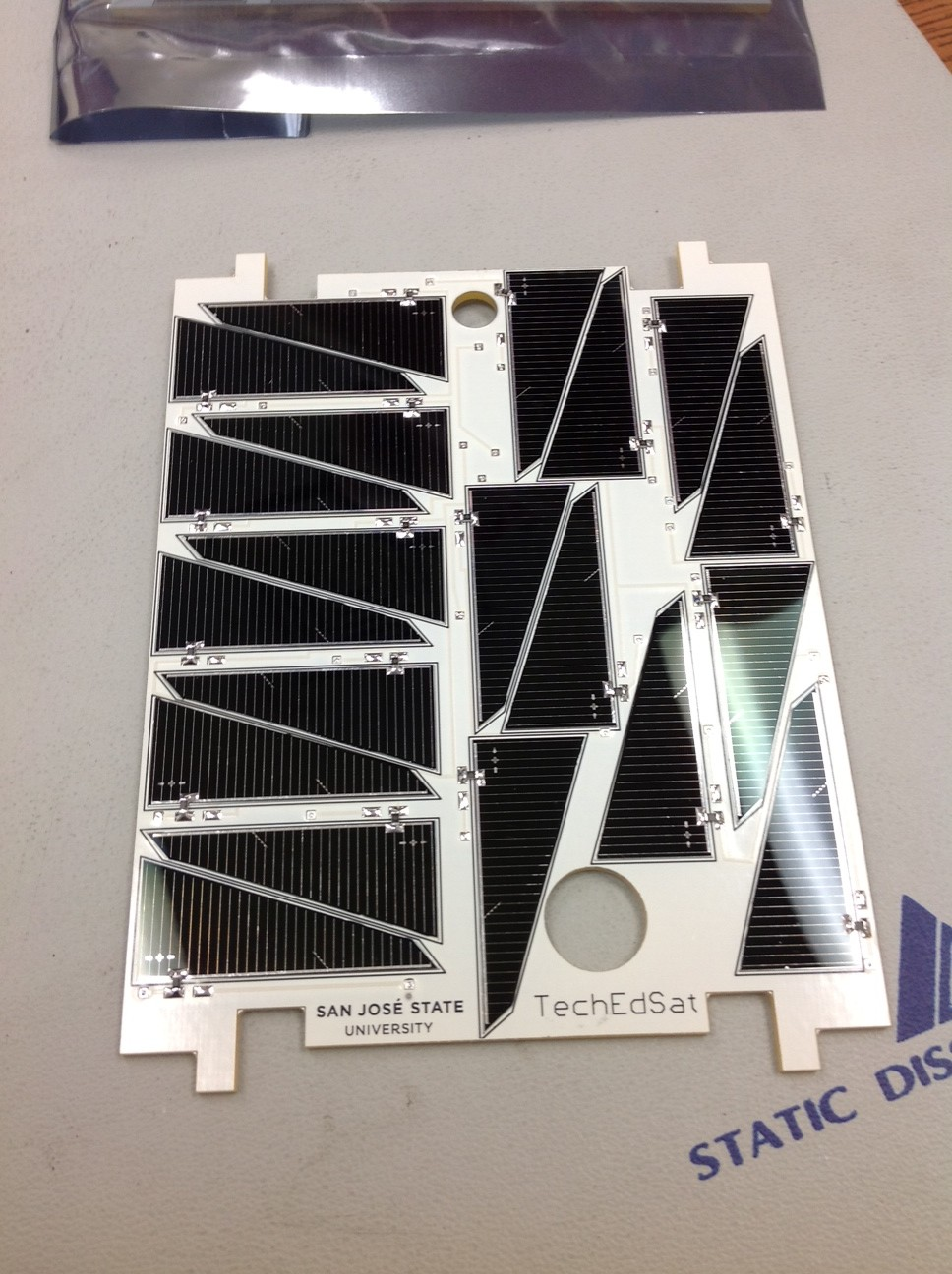 Photograph of the TechEdSat Solar Panel, as taken by Aaron Cohen (CHeeseJaguar) on 3 April 2012